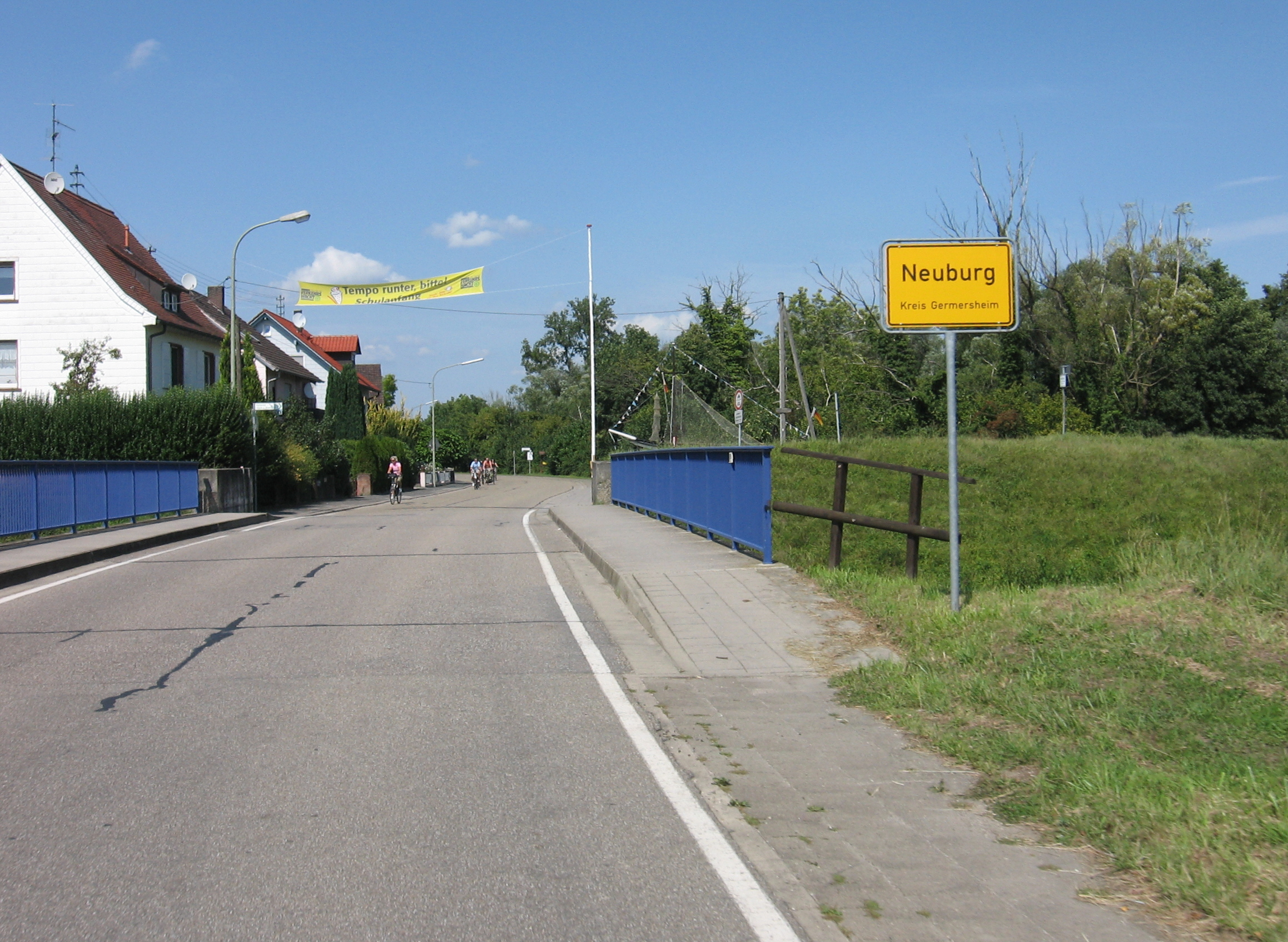 Neuburg am Rhein